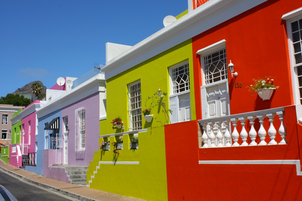 This media shows a South African Protected Site with SAHRA file reference 9/2/018/0008.